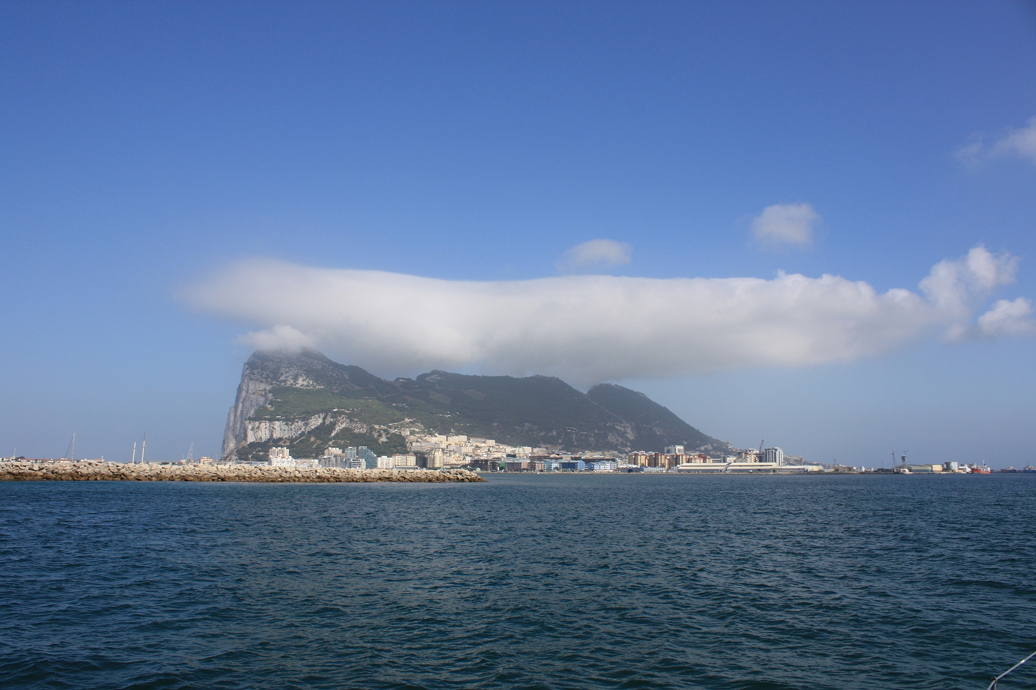 Levante cloud over the rock of Gibraltar with prevailing easterly wind; seen from La Linea in the north-west.